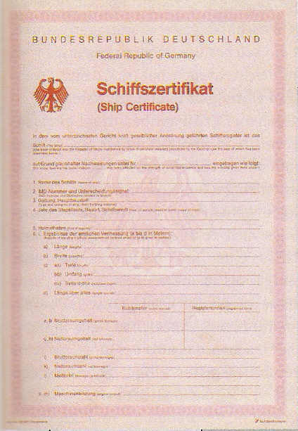 Schiffszertifikat